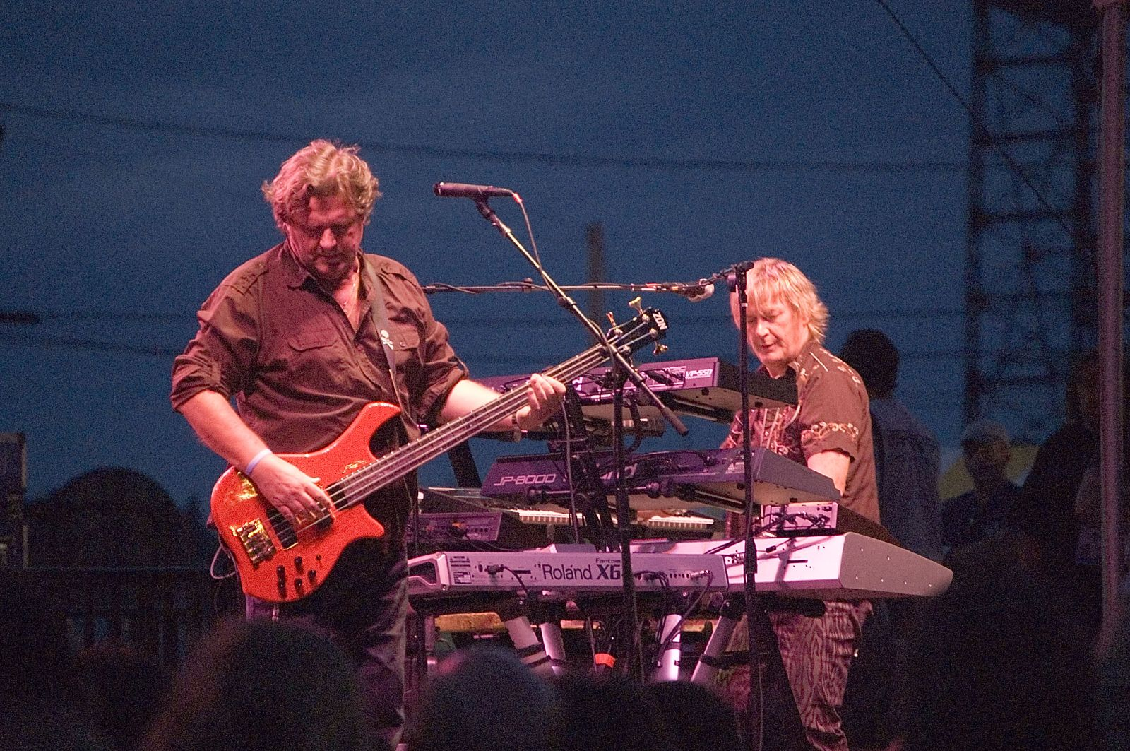 John Wetton (left) and Geoff Downes (right)